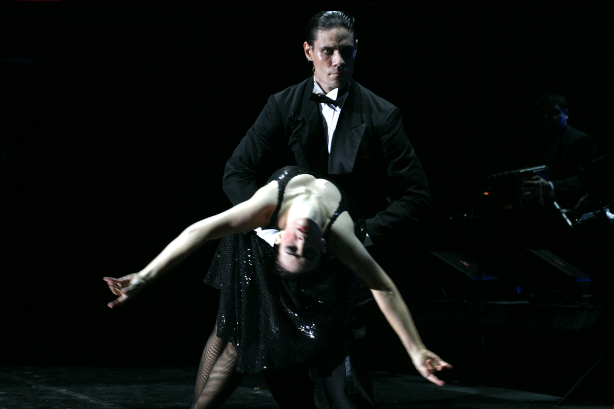 "Tango Argentino" (Claudio Segovia). Song: "Tanguera" (M. Mores). Dancers: Cesar Coelho & Guillermina Quiroga. At the Obelisco, Buenos Aires. 2011. Foto: EStrella Herrera